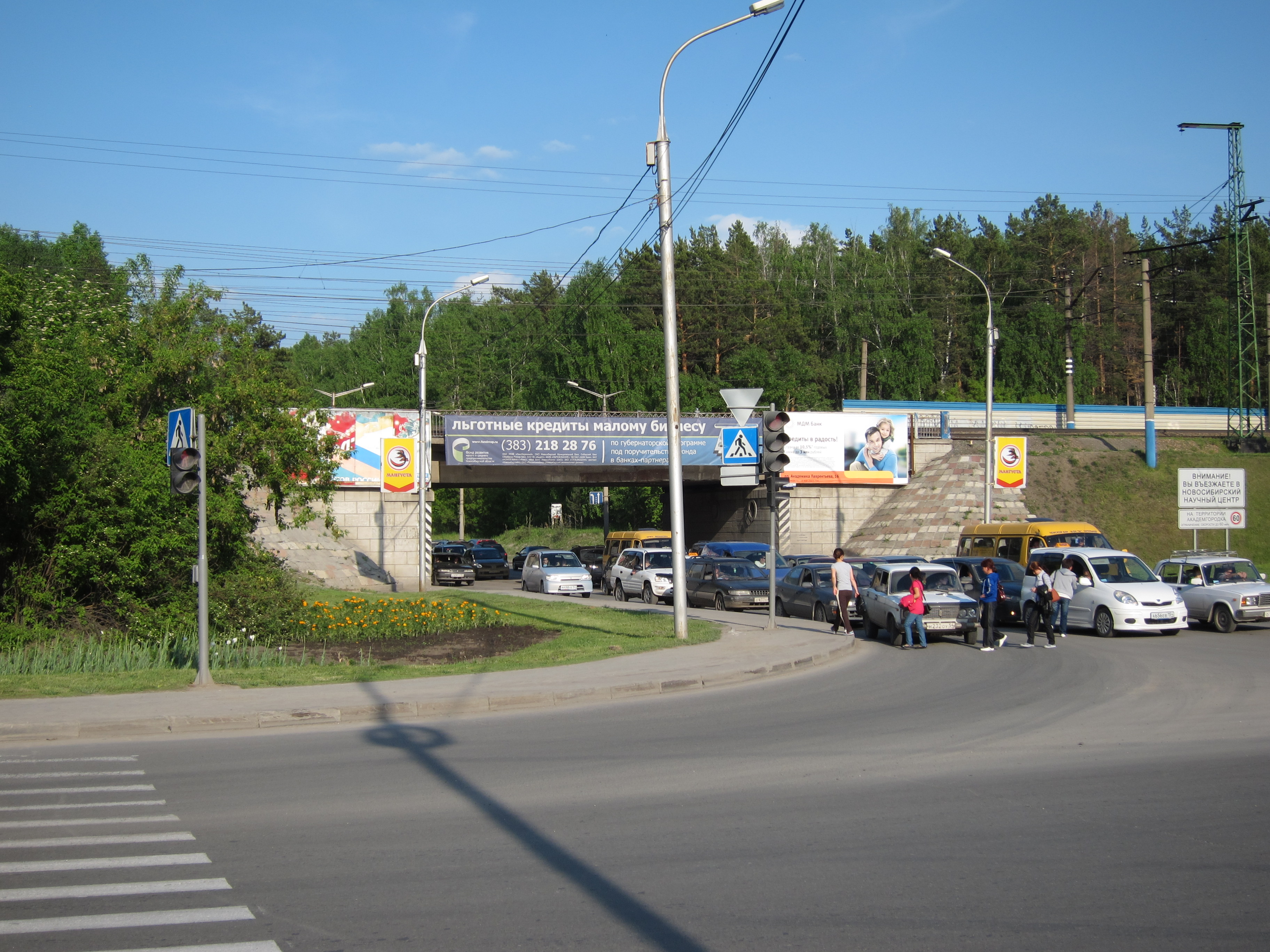 Main entrance to Akademgorodok, Novosibirsk, Russia